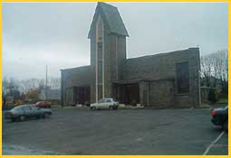 Dromahane Church